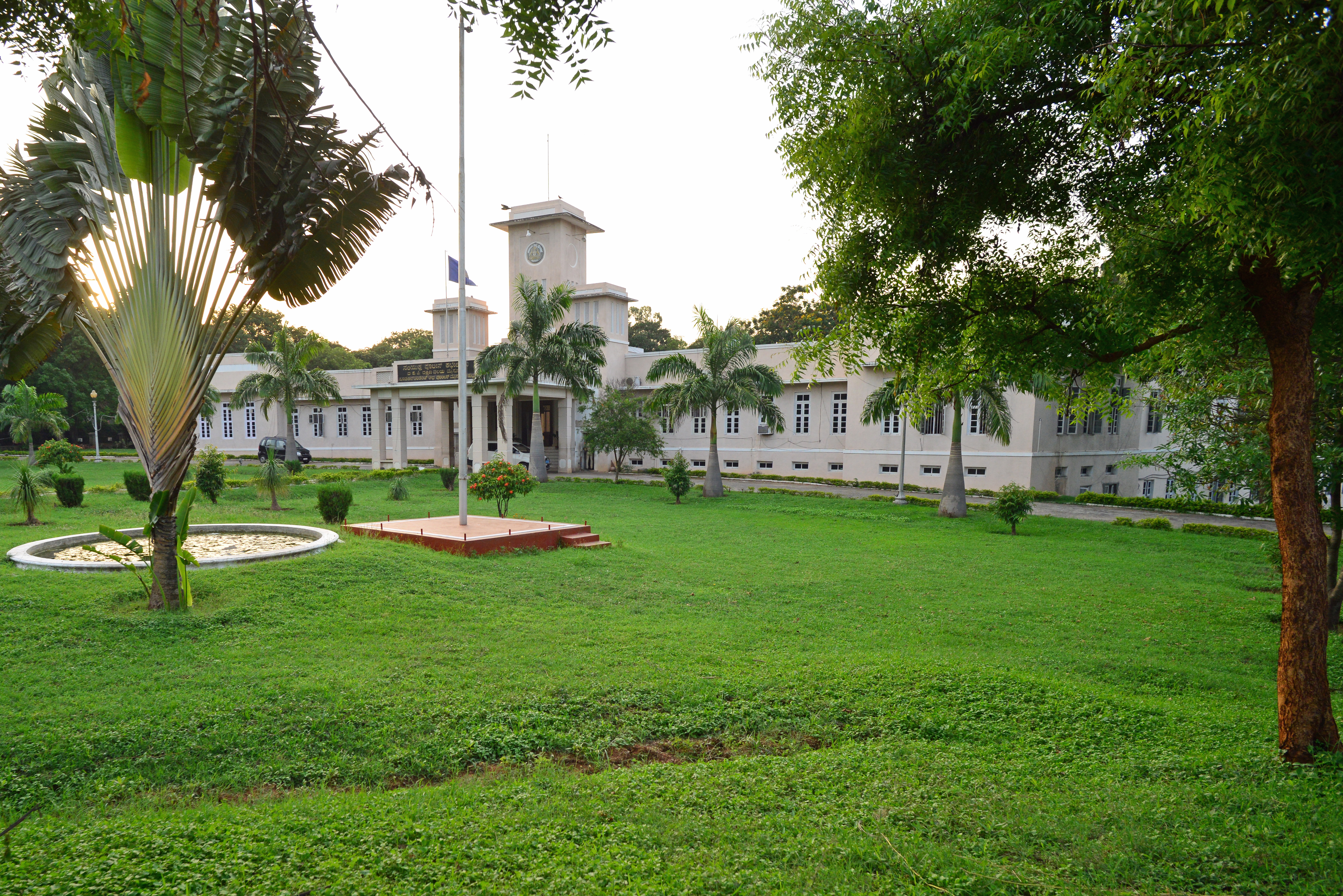 The office of the District Superintendent of Police, Mysore